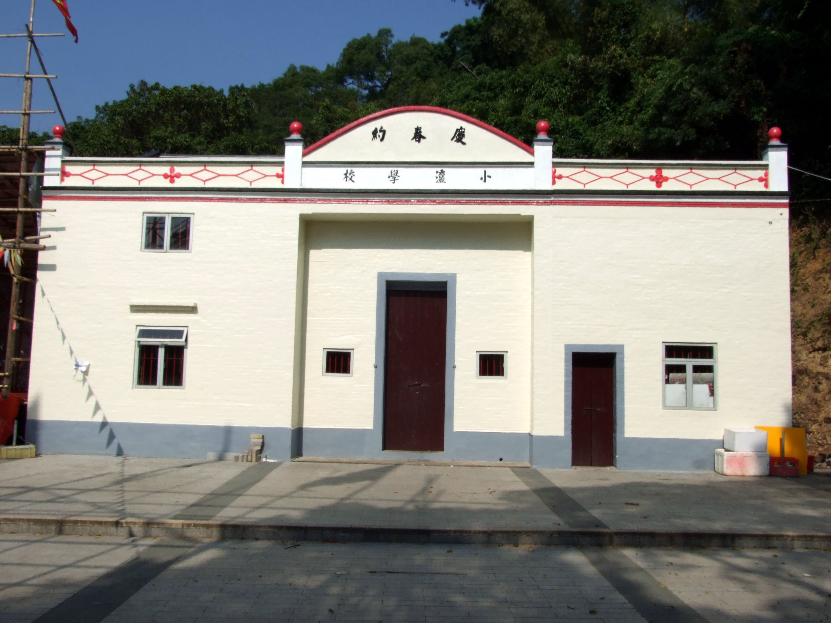 Lai Chi Wo, Siu Ying School